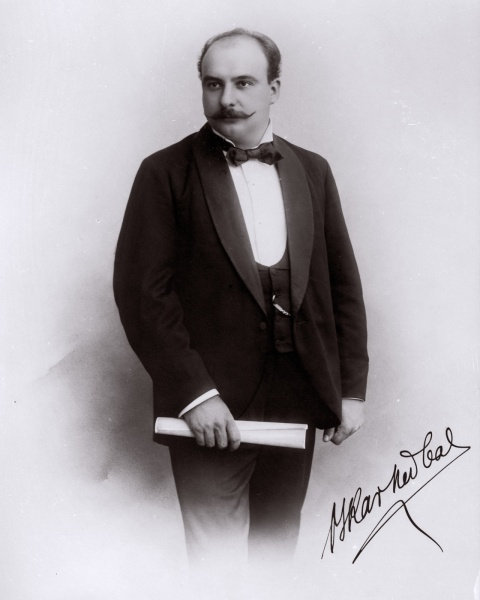 Oskar Nedbal, czech composer, 1901